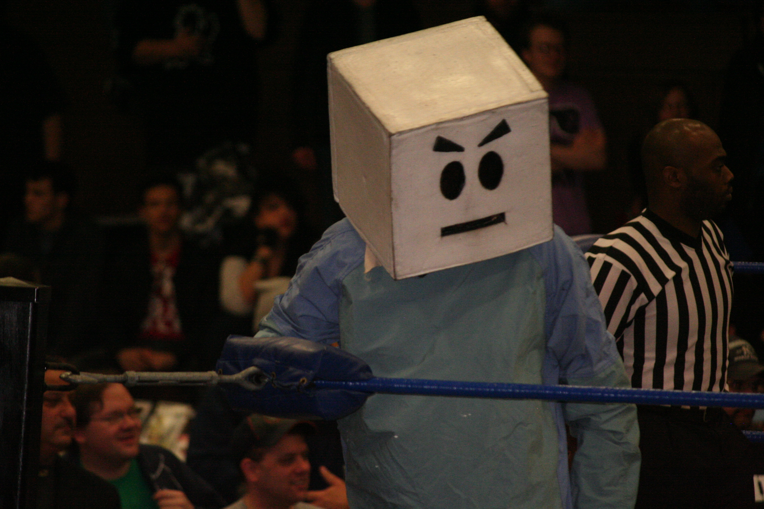 Professional wrestler Dr. Cube during National Pro Wrestling Day.